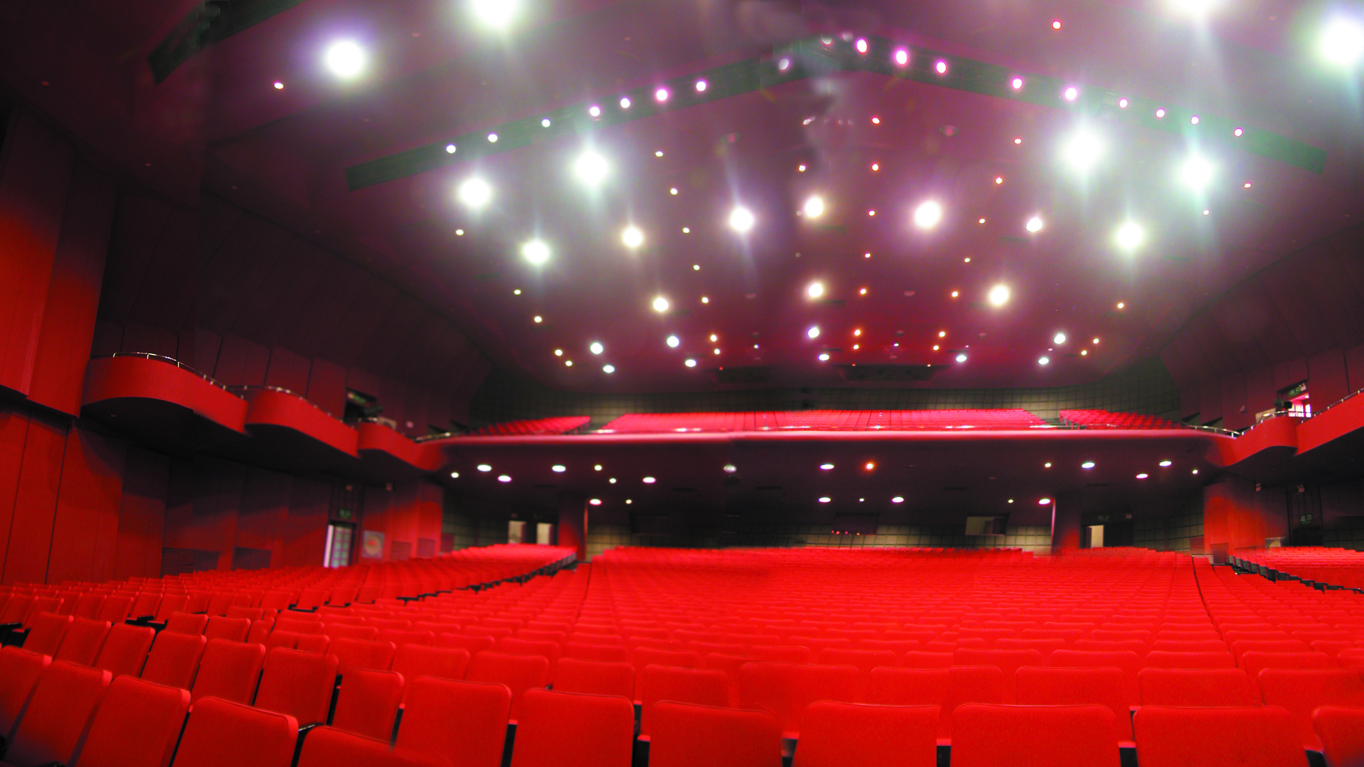 This picture shows the interior of the great hall of Shantou University